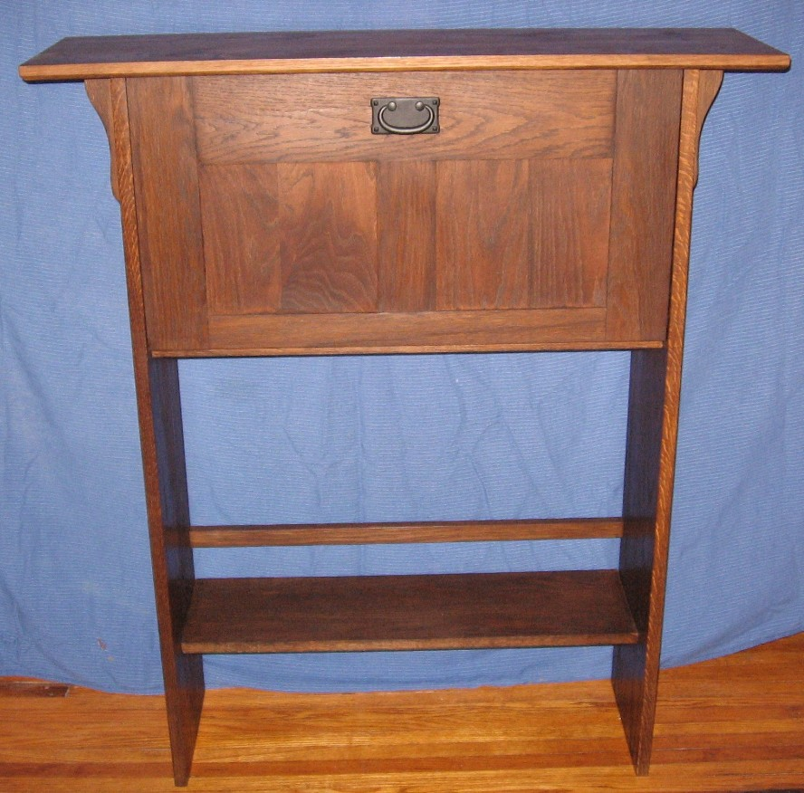 white oak, dark mission dye, cellarette (liquor cabinet), 2007